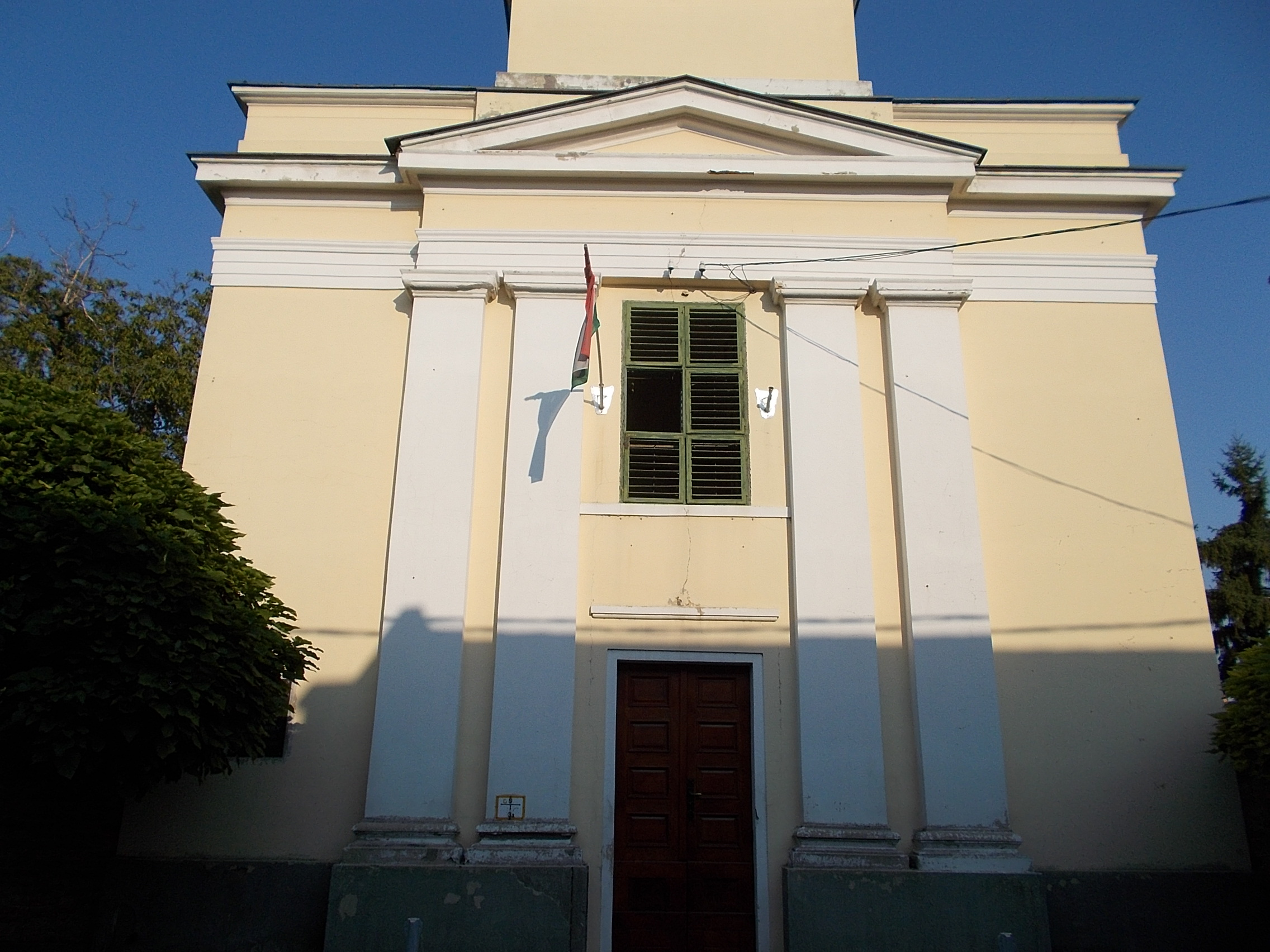 Reformed church. Listed ID 5661. - Arany János Street, Gyöngyös, Heves County, Hungary